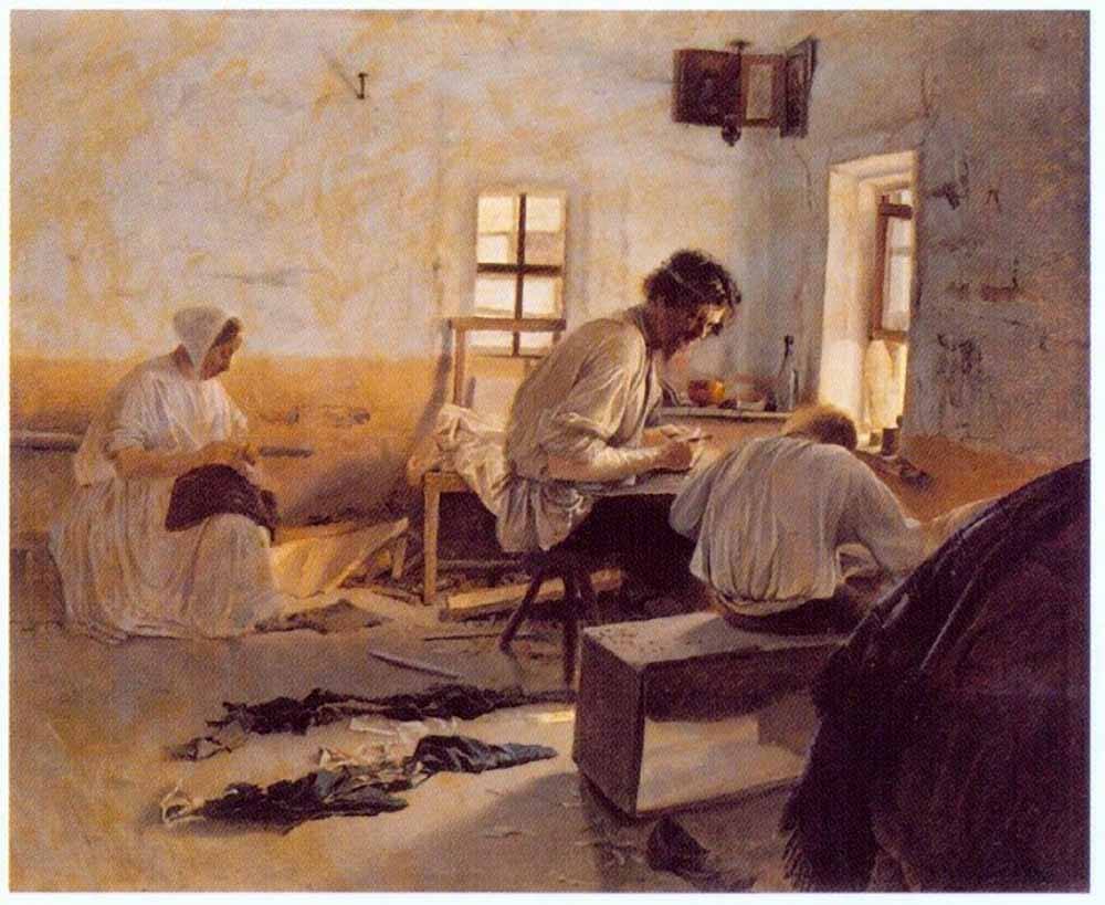 "Shoemakers" (painting by Lev Solovyov)